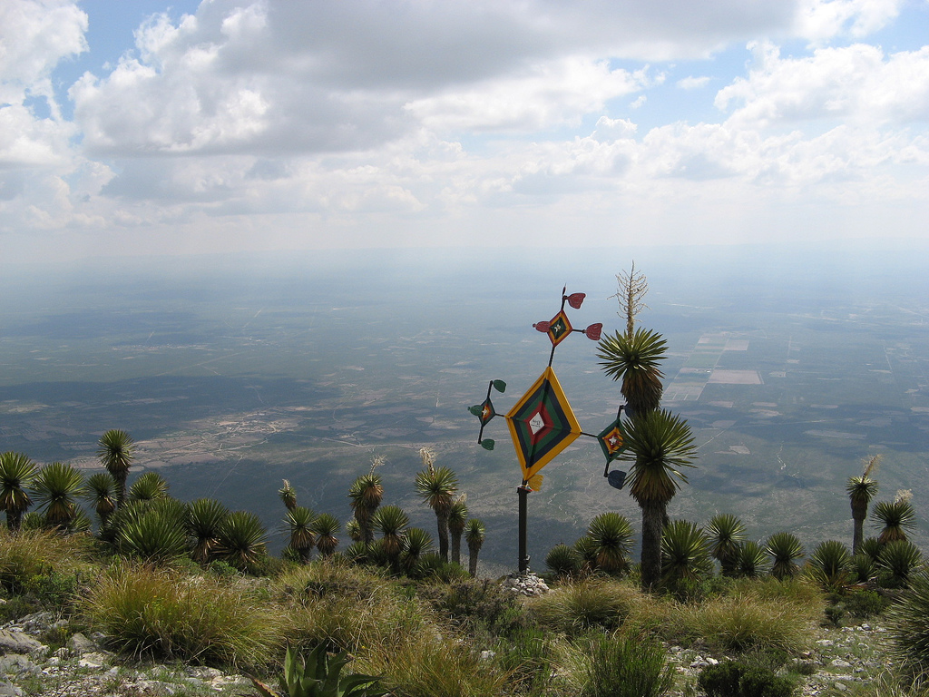 A God's Eye or Ojo de Dios, from Quemado Mountain, San Luis Potosi, Mexico. Artesanía Huichol o wixarika de la región del altiplano en San Luis Potosí